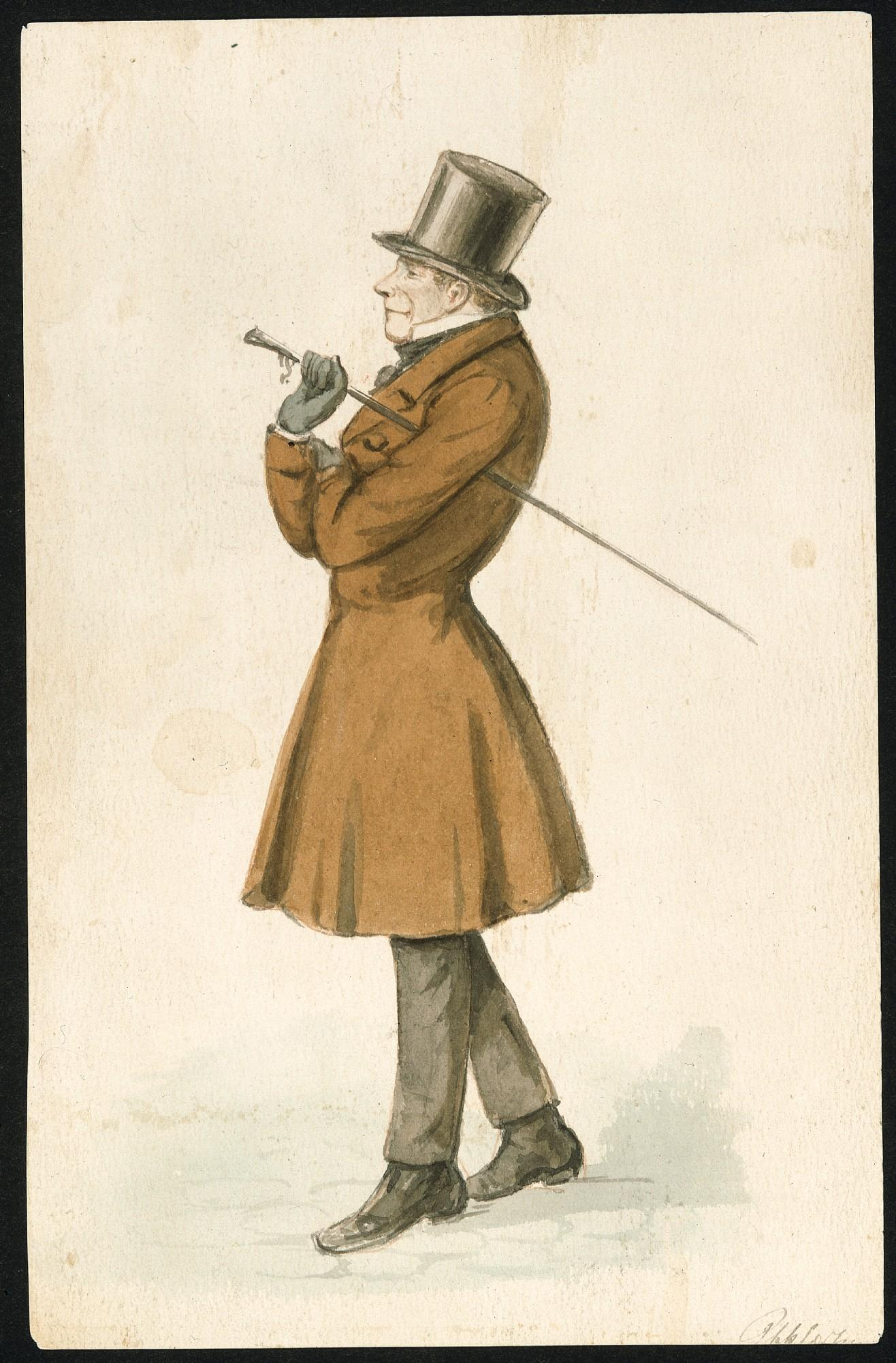 Drawing on Søren Kierkegaard from ca. 1845. The Frederiksborg Museum.